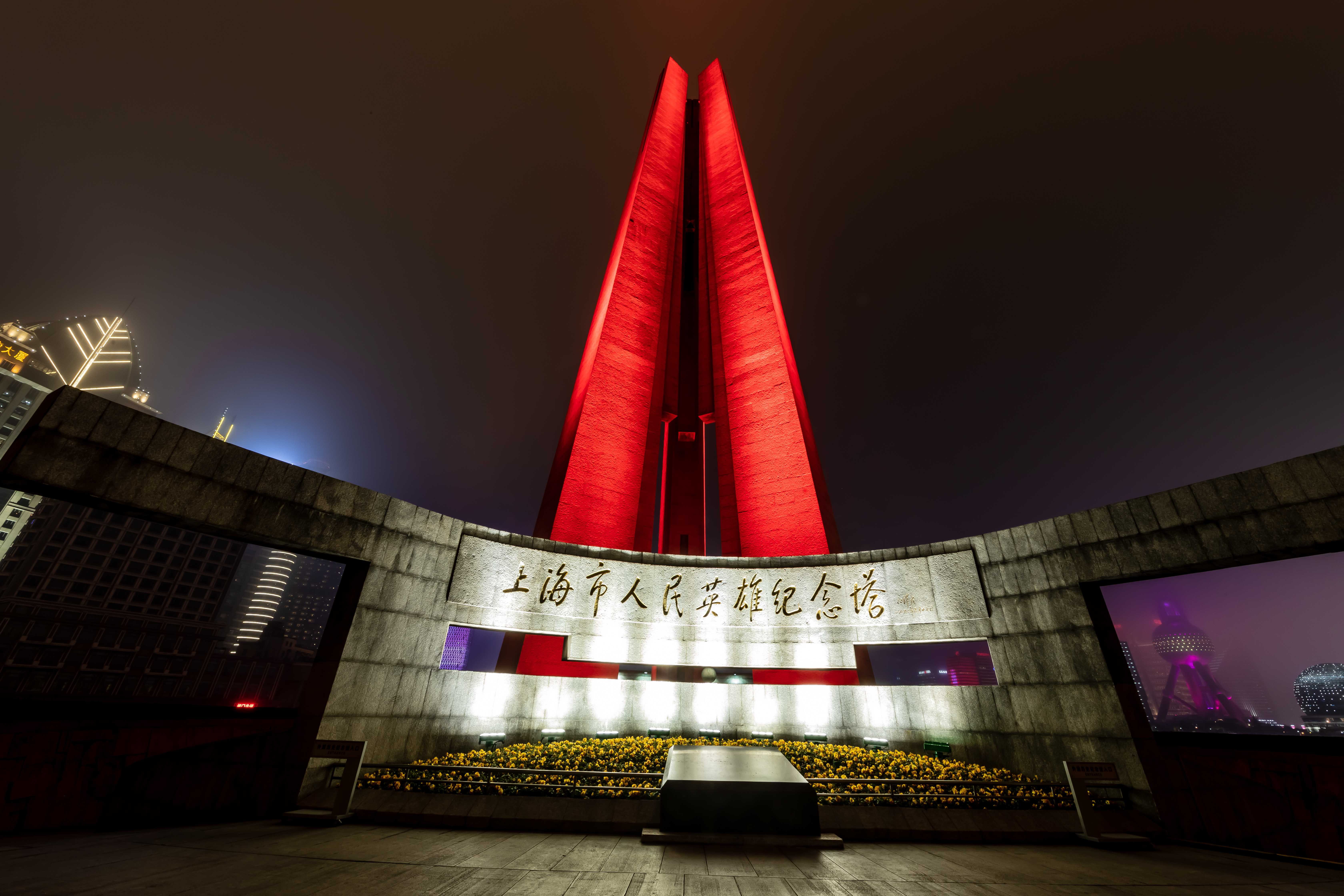 The monument lit at night